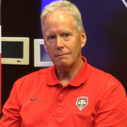 Bob Davie, head coach of the New Mexico Lobos football team, at the 2016 Mountain West Conference Media Days in the The Cosmopolitan in Las Vegas.